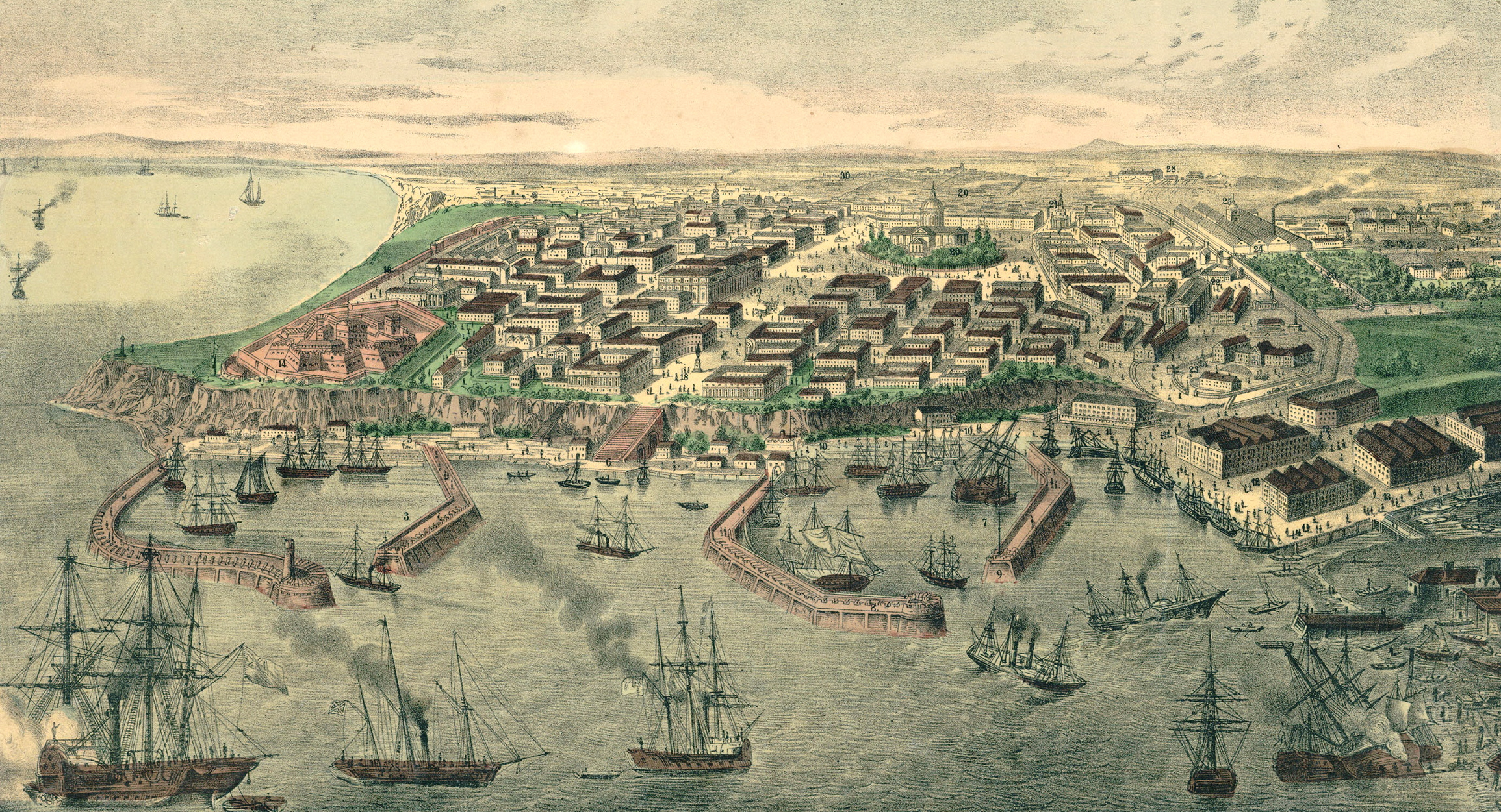 Map of Odessa 1850